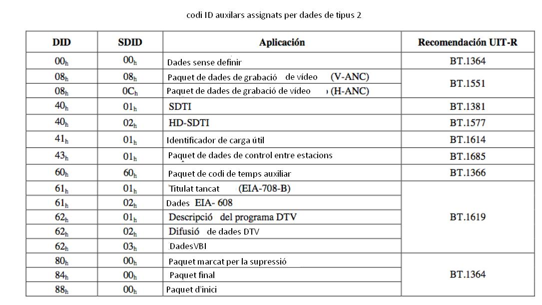 abcdef